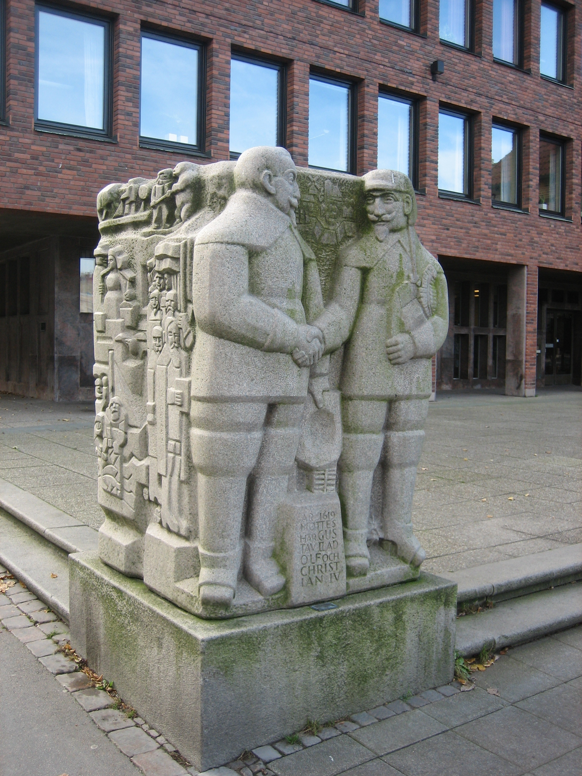 The summit 1619 between the swedish king Gustav II Adolf and danish king Christian IV.